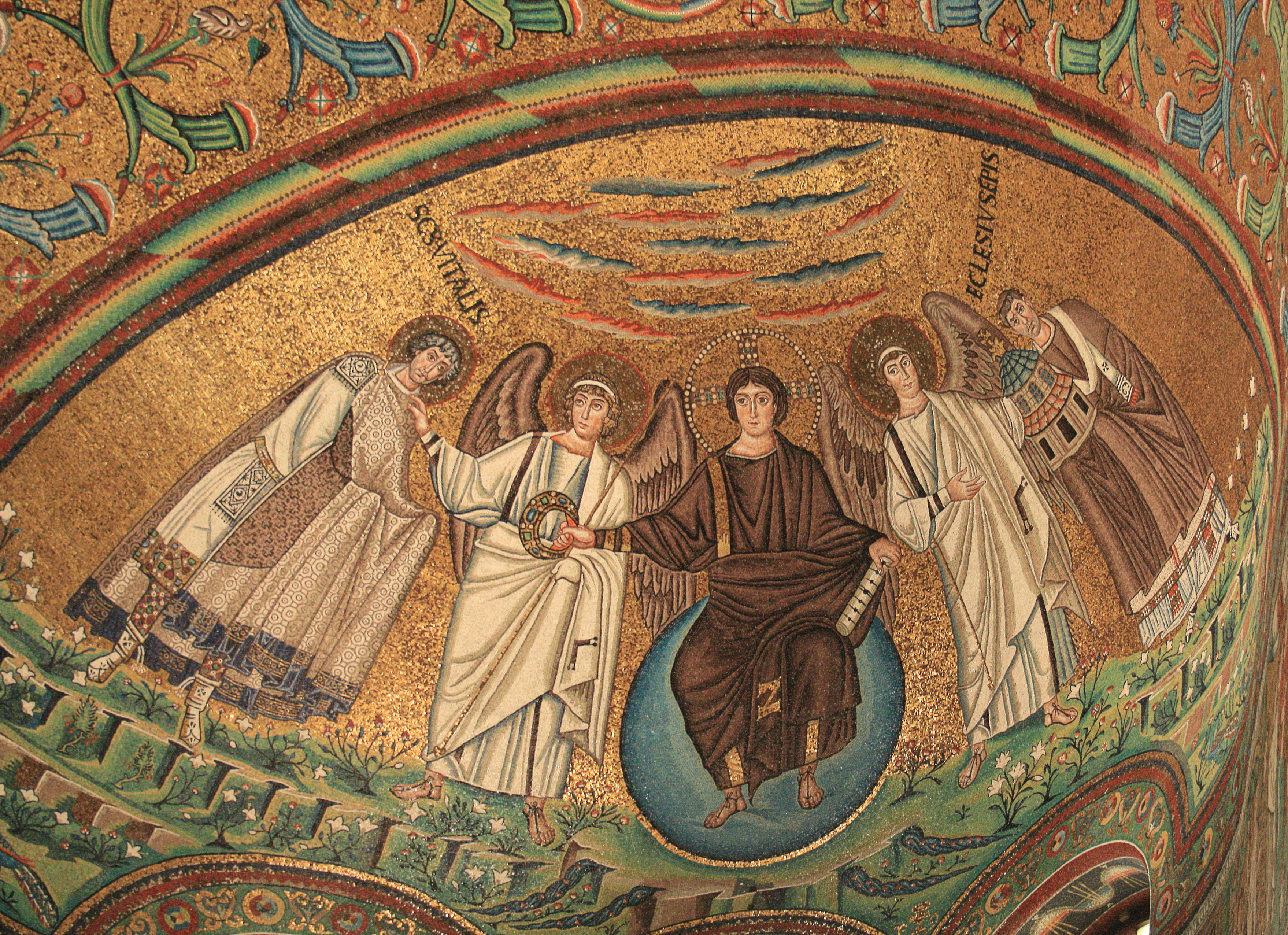 Mosaics in Apse of the Basilica of San Vitale, Ravenna, Italy This is a photo of a monument which is part of cultural heritage of Italy.